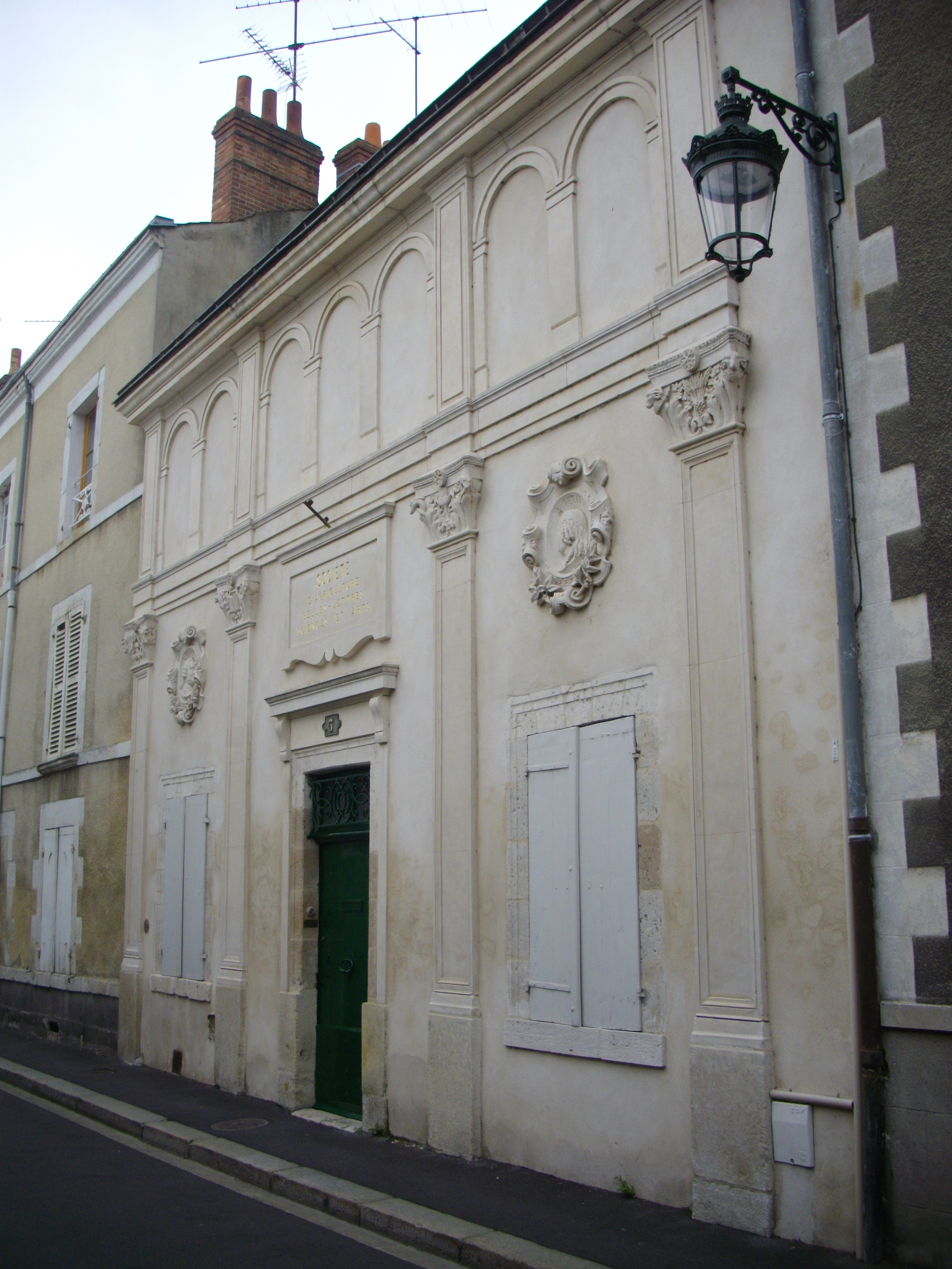 Society of agriculture, literature, sciences and arts, Antoine Petit street, in Orléans (Loiret, France)